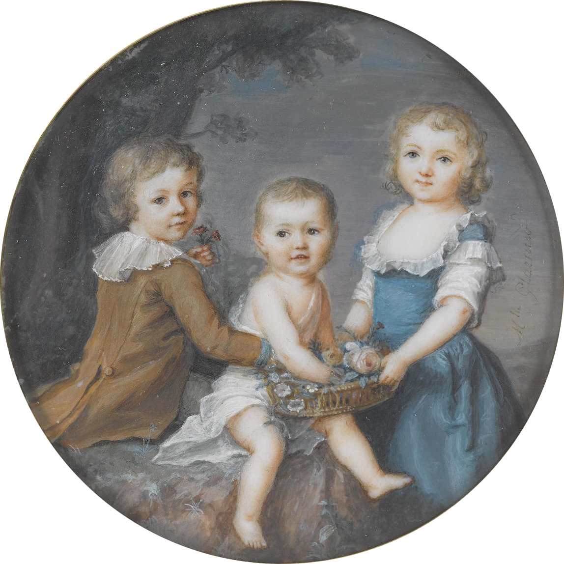 From Bonham's catalog : "a rare miniature by the artist, possibly portraying the three children of Lord Robert Seymour (1748-1831) in a rocky landscape: the boy, seated, holding two flowers in his left hand, his right arm around his younger sibling, wearing buff breeches, brown frock coat and white chemise with frilled collar; the youngest child, seated and wearing white chemise, handling flowers gathered by the eldest sibling, a girl, wearing teal blue dress and white chemise with frilled trim."